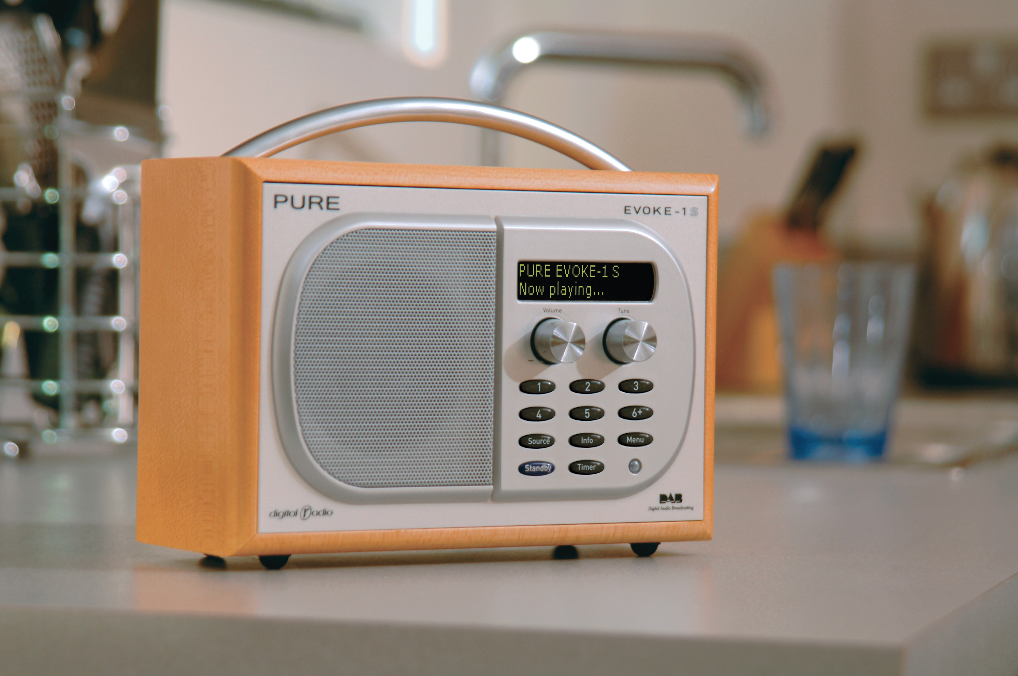 First affordable digital radio by Pure